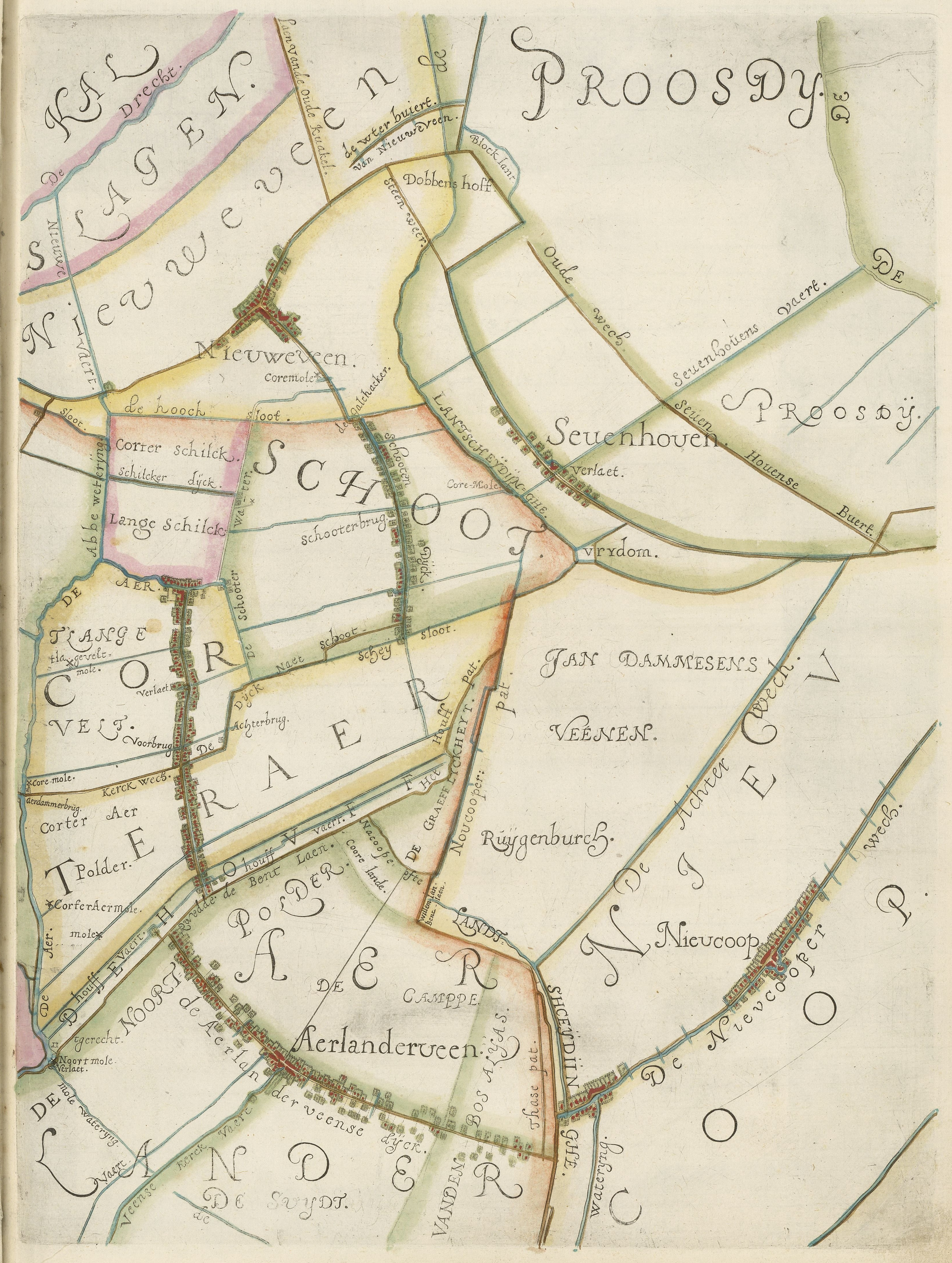 Map Book of the management areas of the Water Boards of Rhineland, Delfland and Schieland (in the Netherlands), measured and mapped by Mr. Floris Balthasar. Copper print. Sheet 1 of 42 sheets, showing the area around Aarlanderveen, Nieuwkoop, Zevenhoven, Korteraar and Nieuwveen (Province of South Holland).